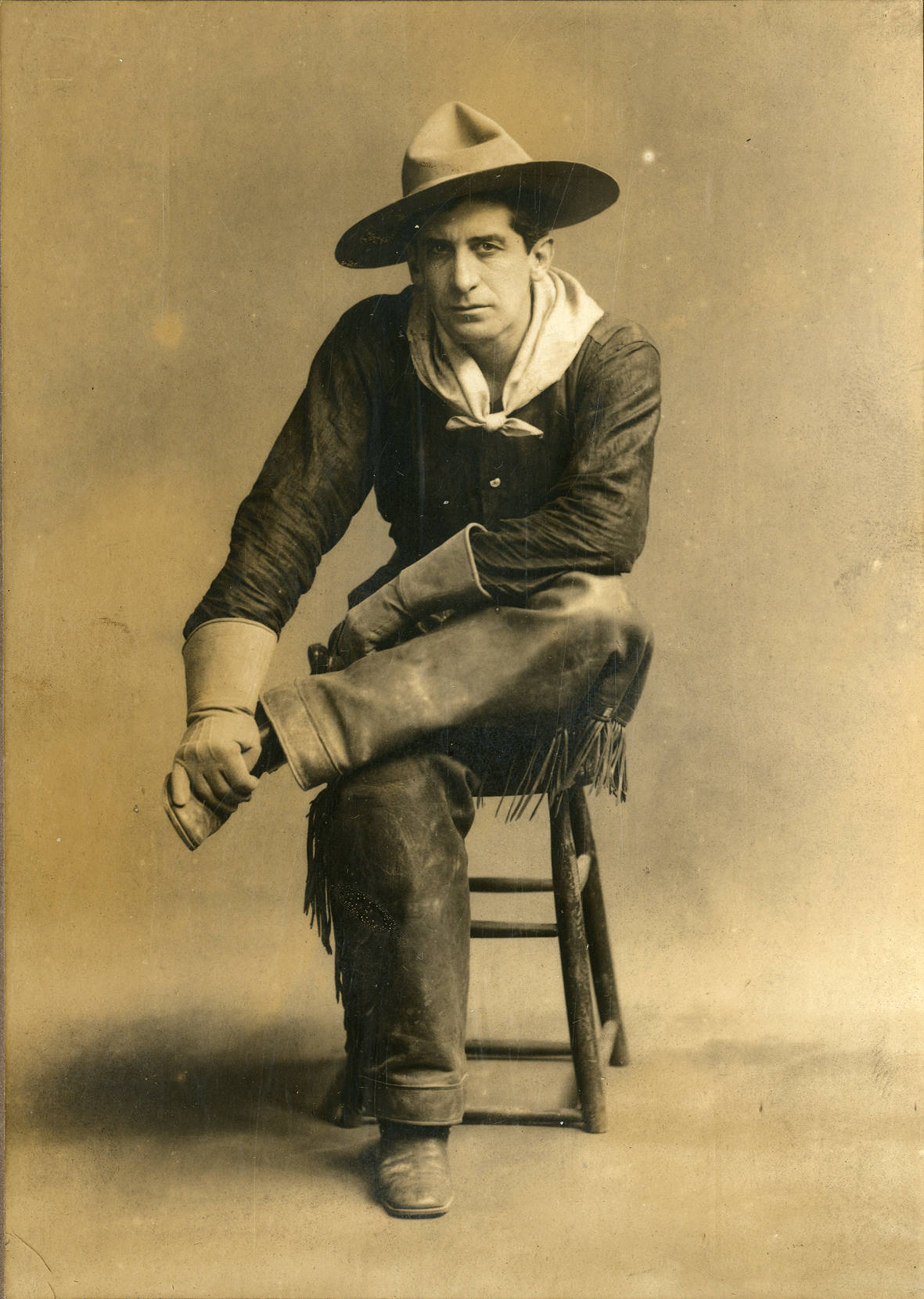 Frank Campeau, stage actor Subjects: actors, plays